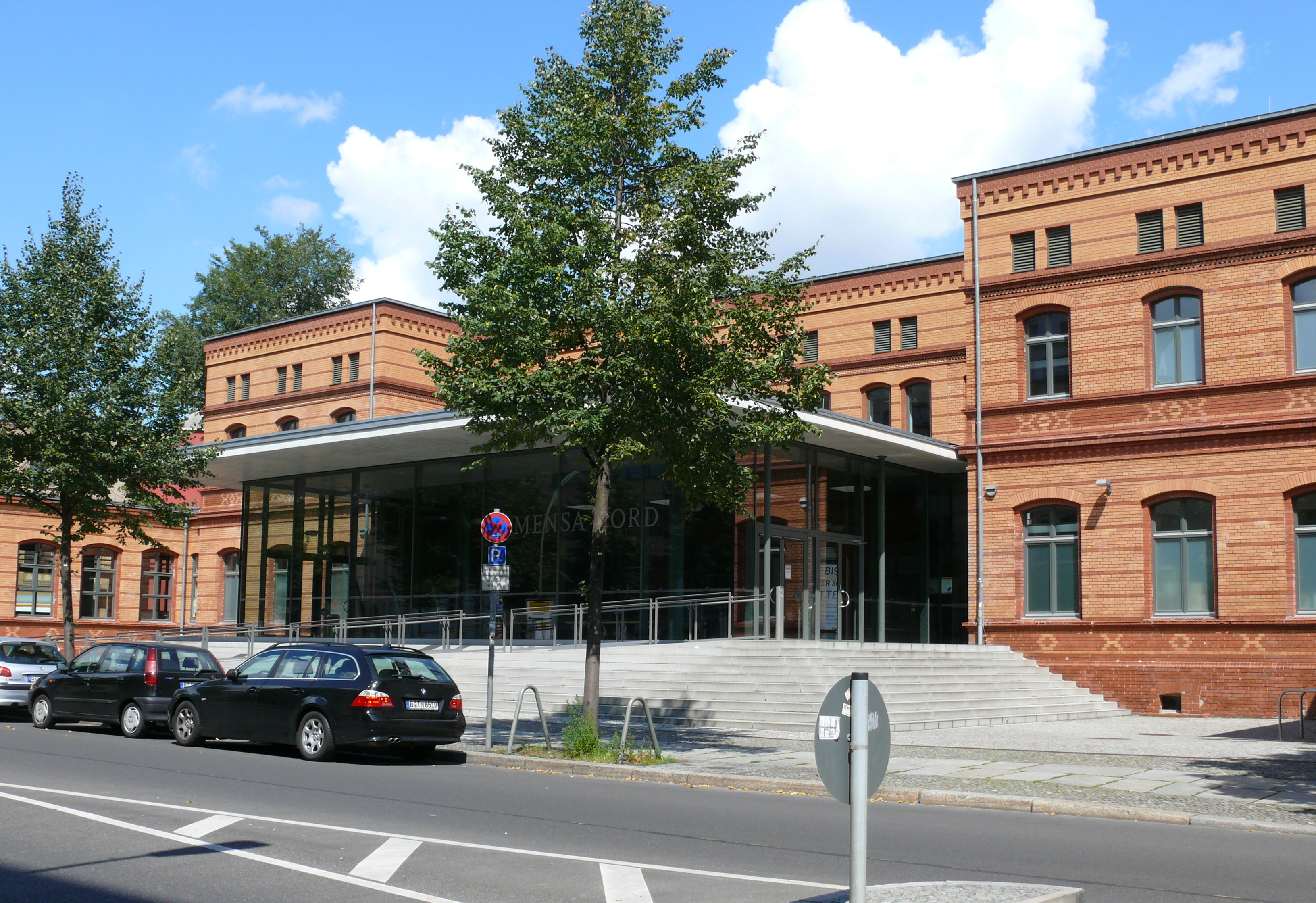 Berlin-Mitte Hannoversche Straße Mensa Nord